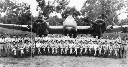 AWM Caption: Ward's Airfield, Papua. 1943-06. Group portrait of air crew of No. 30 Squadron RAAF in front of one of the Squadron's Beaufighter aircraft. The navigators are standing while the pilots are seated. Left to right: Flight Lieutenant (Flt Lt) John Hullin, Warrant Officer (WO) Greg Hardman, Pilot Officer (PO) Alfred Burgoyne, Flight Sergeant (Flt Sgt) Donald West, PO Rex Pitman, Flt Sgt Don Kirkwood, Sergeant (Sgt) Ron Allen, Sgt Vernon Gollan, Flt Sgt Bob Thomas, PO Arthur Hodges, Sgt Harold Kelly, Flt Sgt Bernie Le Griffon, Sgt Phil Edwards, FO Ray Kelley, FO Keith McCarthy, Sgt Ken G. Delbridge, FO George Dick, PO Clive Cooke, PO Peter White, Sgt Stan Lutwyche, Sgt Don Miller, FO Ron Binnie, FO Bill Coleman, Sgt John Bell; seated: Flt Lt Mike Burrows, FO Len Hastwell, PO John McRobbie, Flt Sgt Colin Wein, Sgt John Drummond, FO Ted Marron, Sgt Harold Tapner, FO Graeme Hunt, FO `Scotty' Wallace, Sgt Bill Cosgrove, FO Bob Bennett, Wing Commander Clarrie Glasscock, Squadron Leader Bill Boulton, FO Keith Nicholson, FO Doug Raffen, PO John McRobbie, Flt Lt Arthur Thompson, Flt Lt Peter Fisher, Sgt Charles Harris, FO Joe Newman, FO Bob Mills.